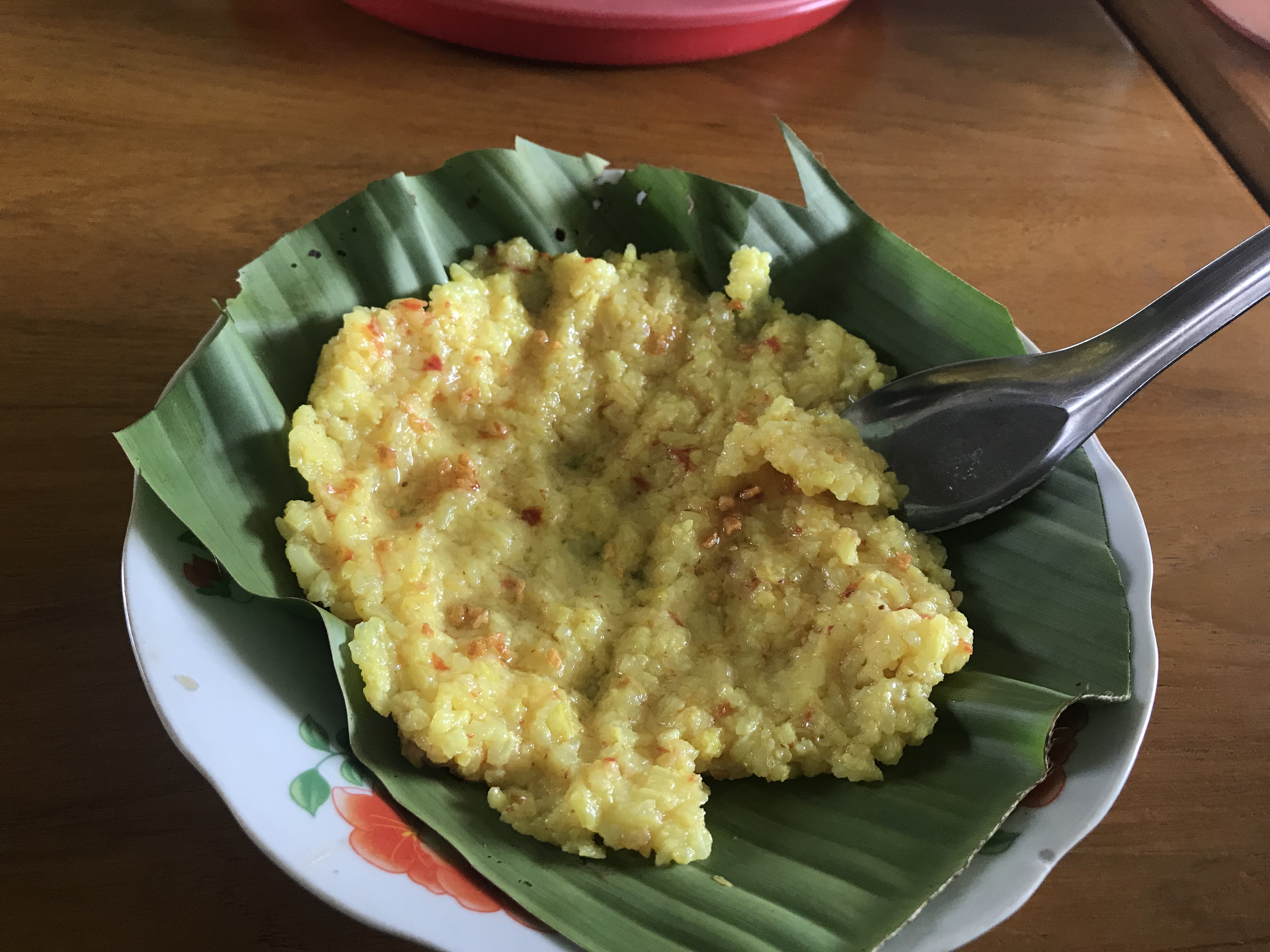 Shan style pounded oily rice- served on a banana leaf with garlicky roots. Pinlaung, Pinlaung township, Shan State (Pa'O Self Administered Zone)